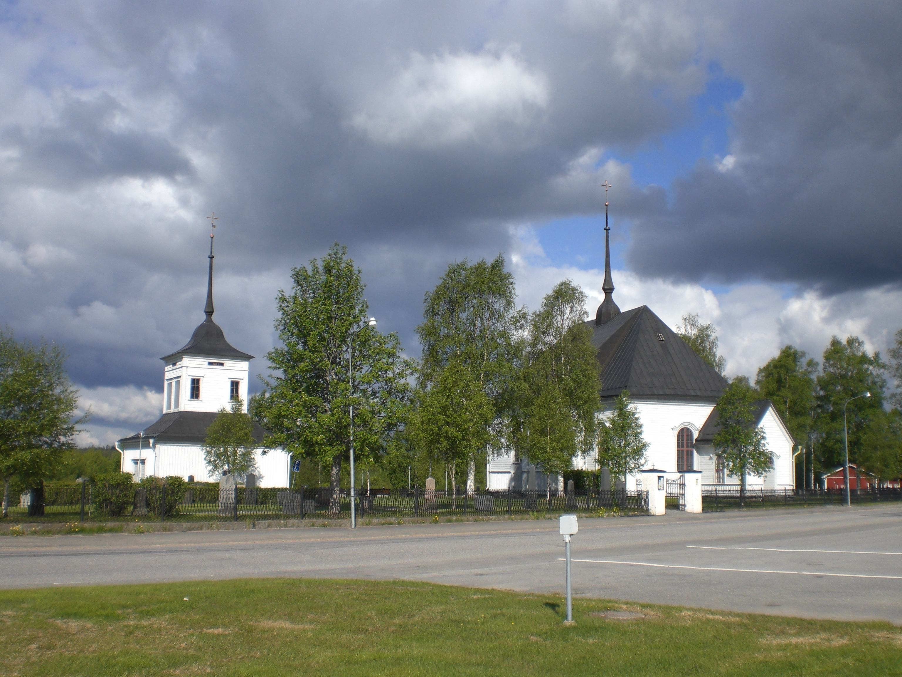 Nysätra church in Ånäset in Robertsfors Municipality